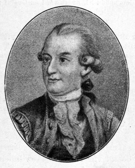 Johan Wellander, Swedish city court judge and poet.